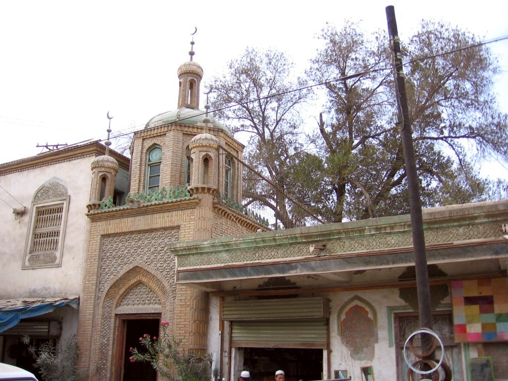 Yarkand (Sache) is an oasis city in the Xinjiang Uygur Autonomous Region of the People's Republic of China. Mosque in the old city streets.